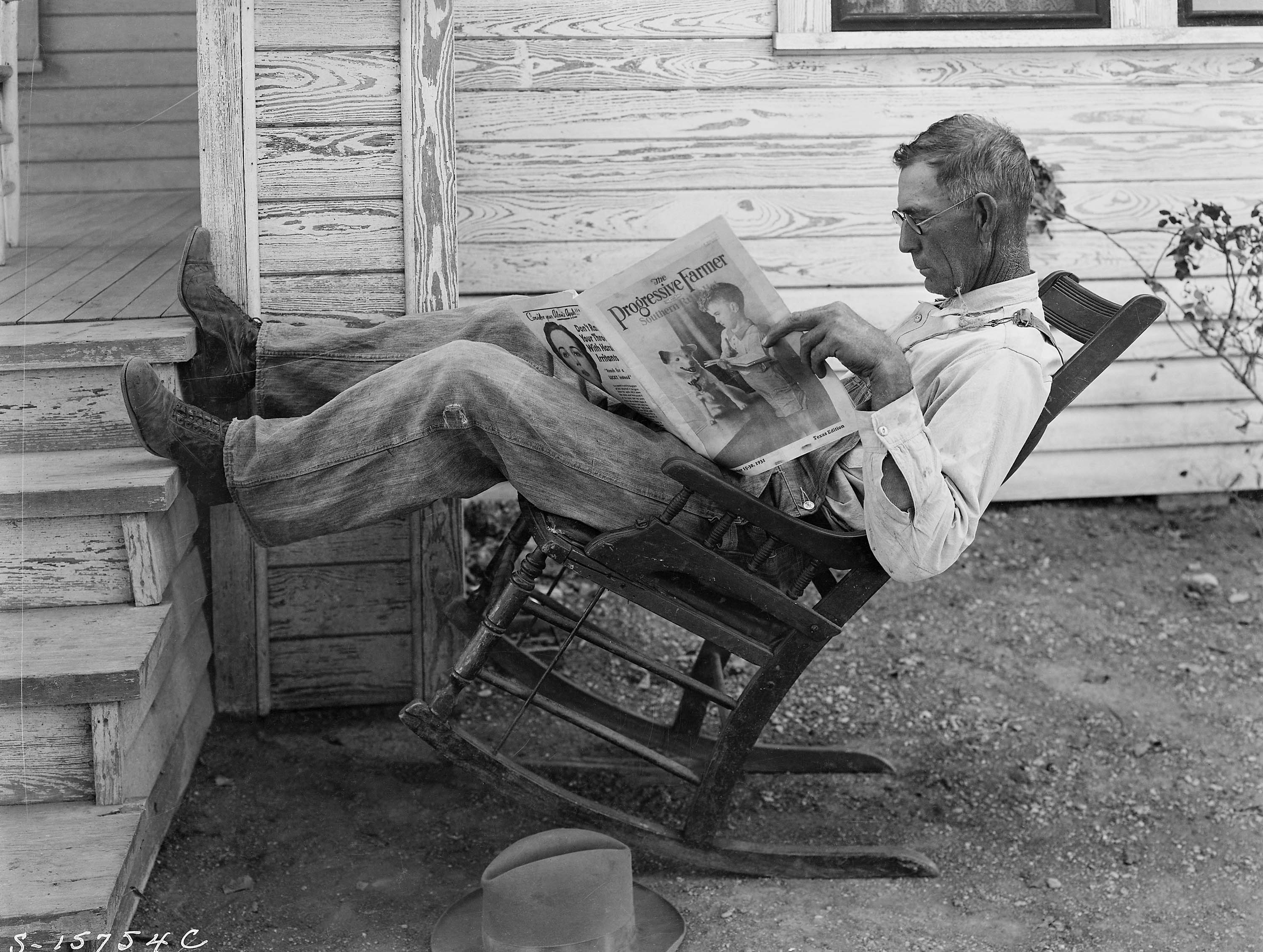 Farmer in rocking-chair reading The Progressive Farmer. "Farmer reading his farm paper" By George W. Ackerman, Coryell County, Texas, September 1931